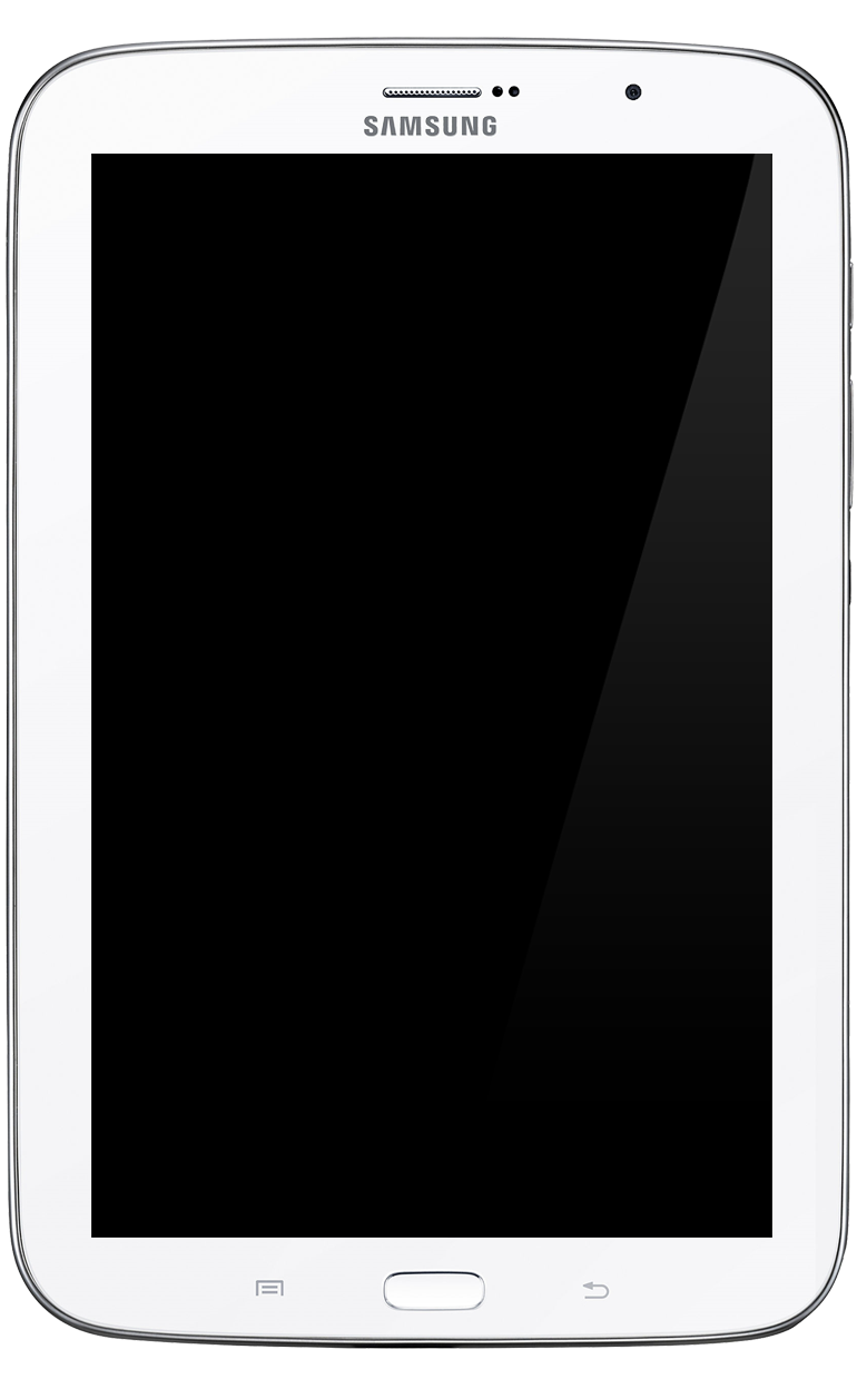 Samsung Galaxy Note 8.0 render